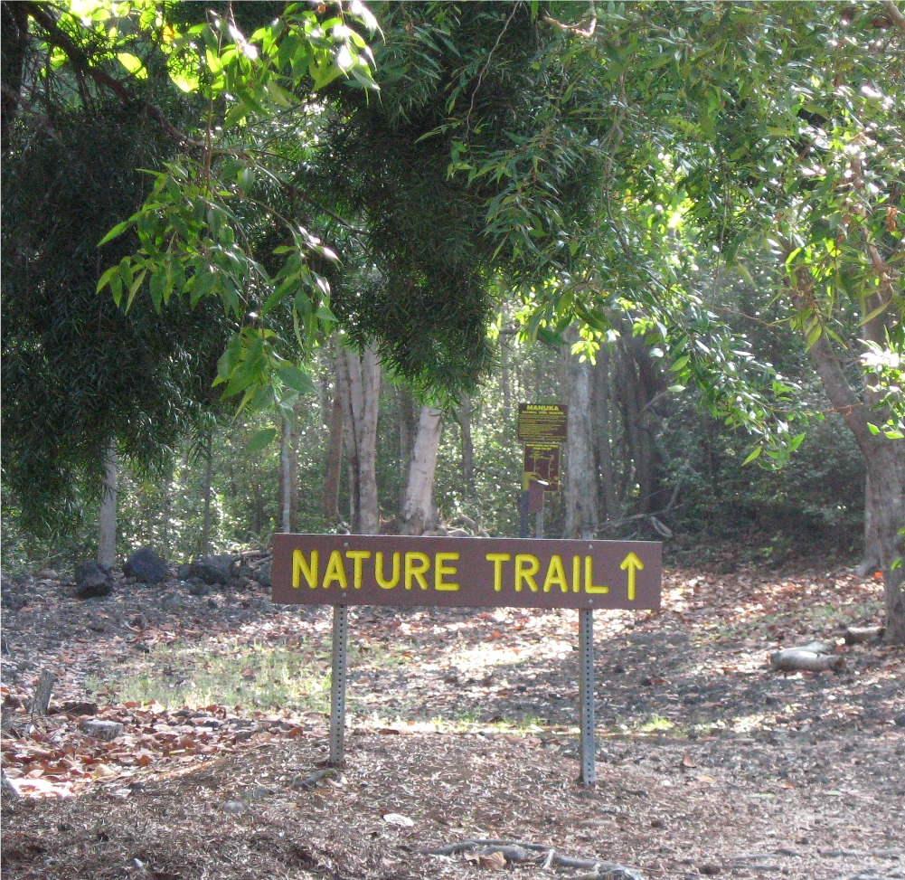 Nature trail at Manuka State Park — on the Big Island of Hawaiʻi.